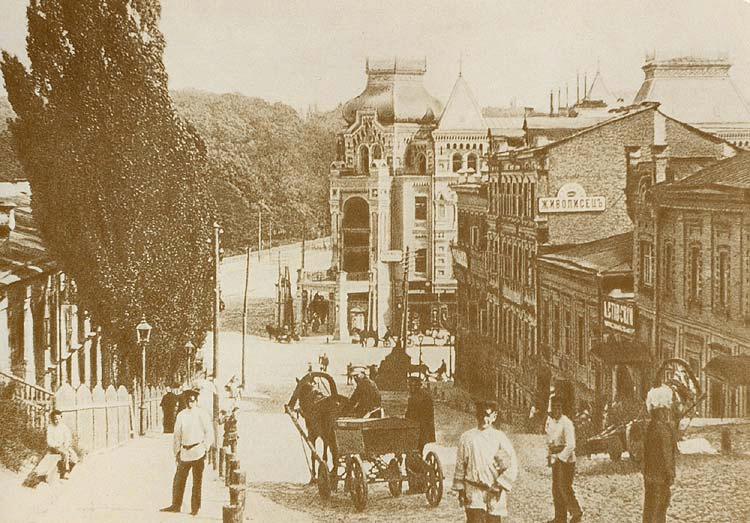 Kiev, view of the 3-prelates street